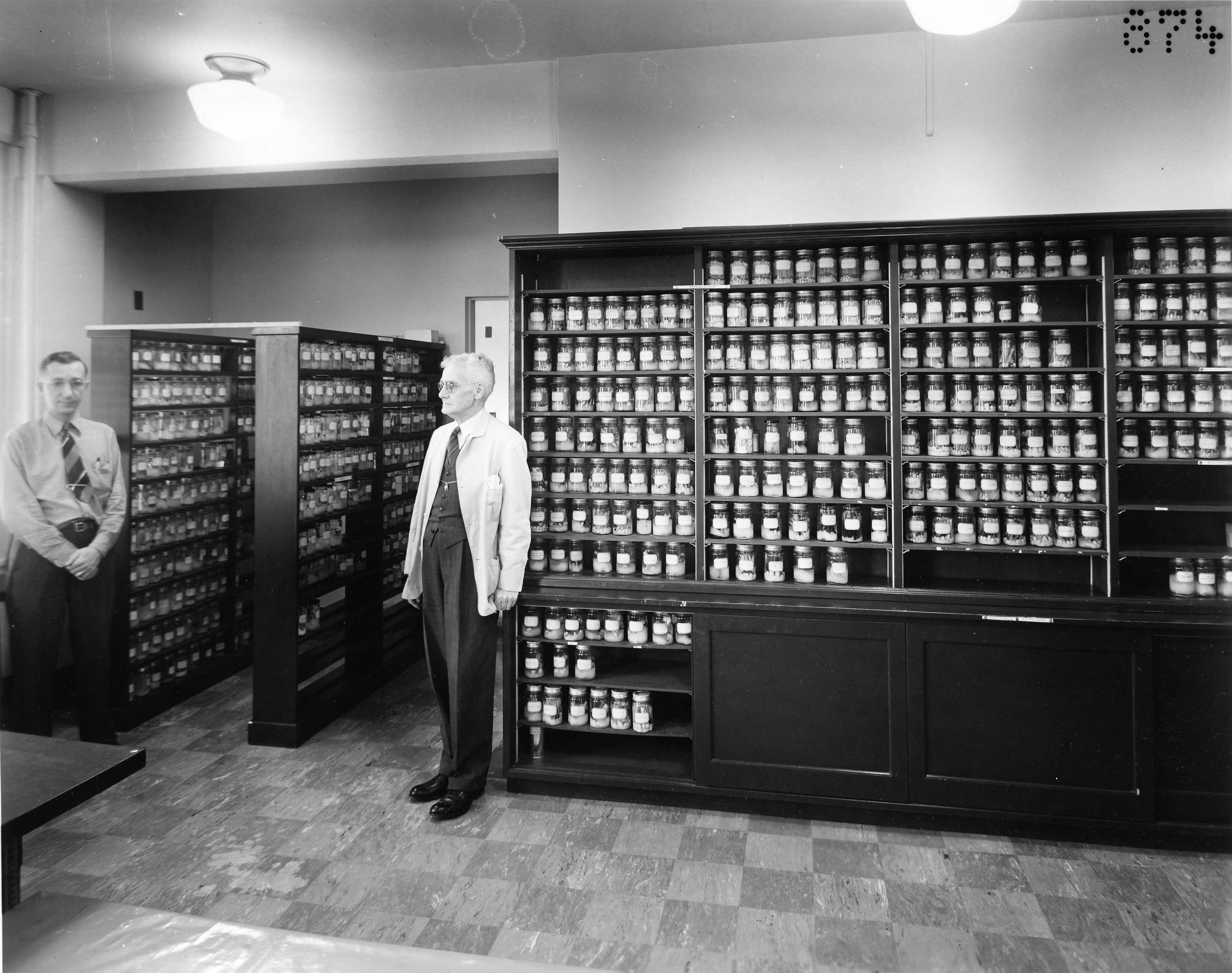 Rocky Mountain Laboratories, Hamilton, MA: Glen M. Kohls and Robert A. Cooley with the tick collection, 1940